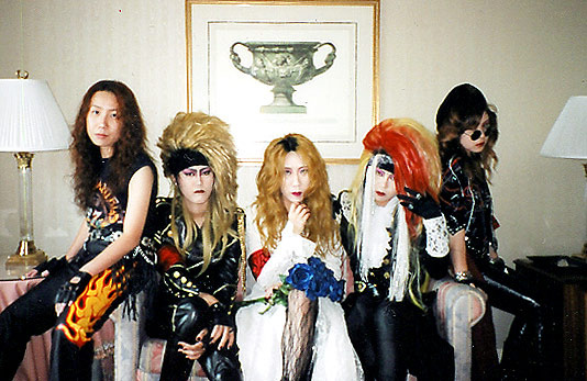 X Japan cosplayers